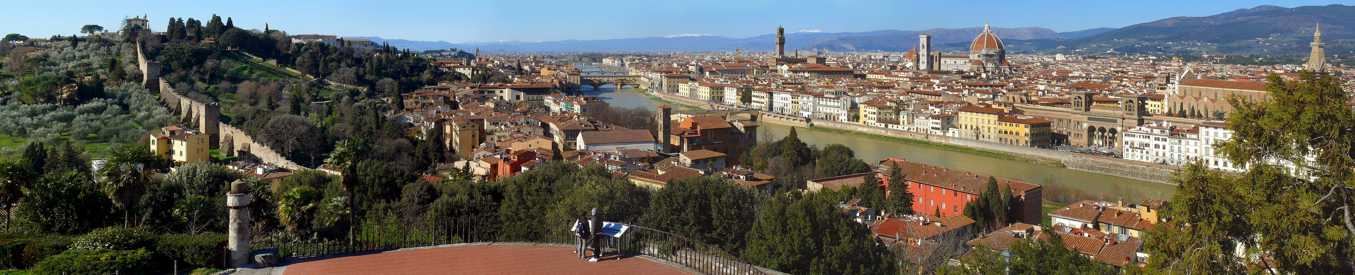 Panoramic of the city of Florence, taken from Piazzale Michelangelo (Modifications: Perspective corrention)